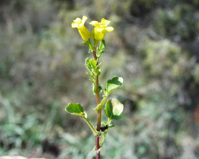 (en) Barbaraea verna, a photography originating of the internet site The accord of the autor, H. Brisse, is here. (fr) Barbaraea verna, une photographie issue du site internet L'accord de l'auteur, H. Brisse, se situe ici.